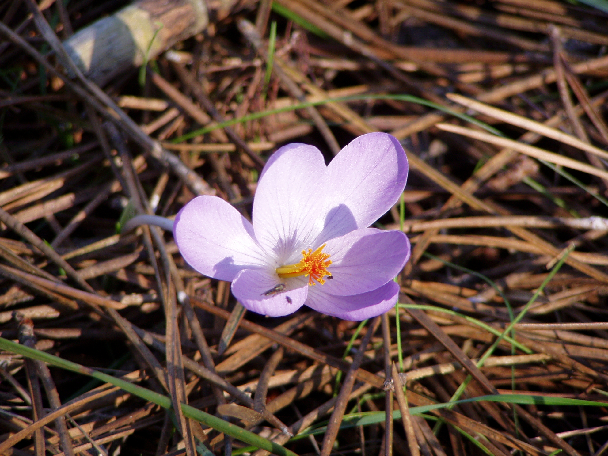 Saffron Crocus